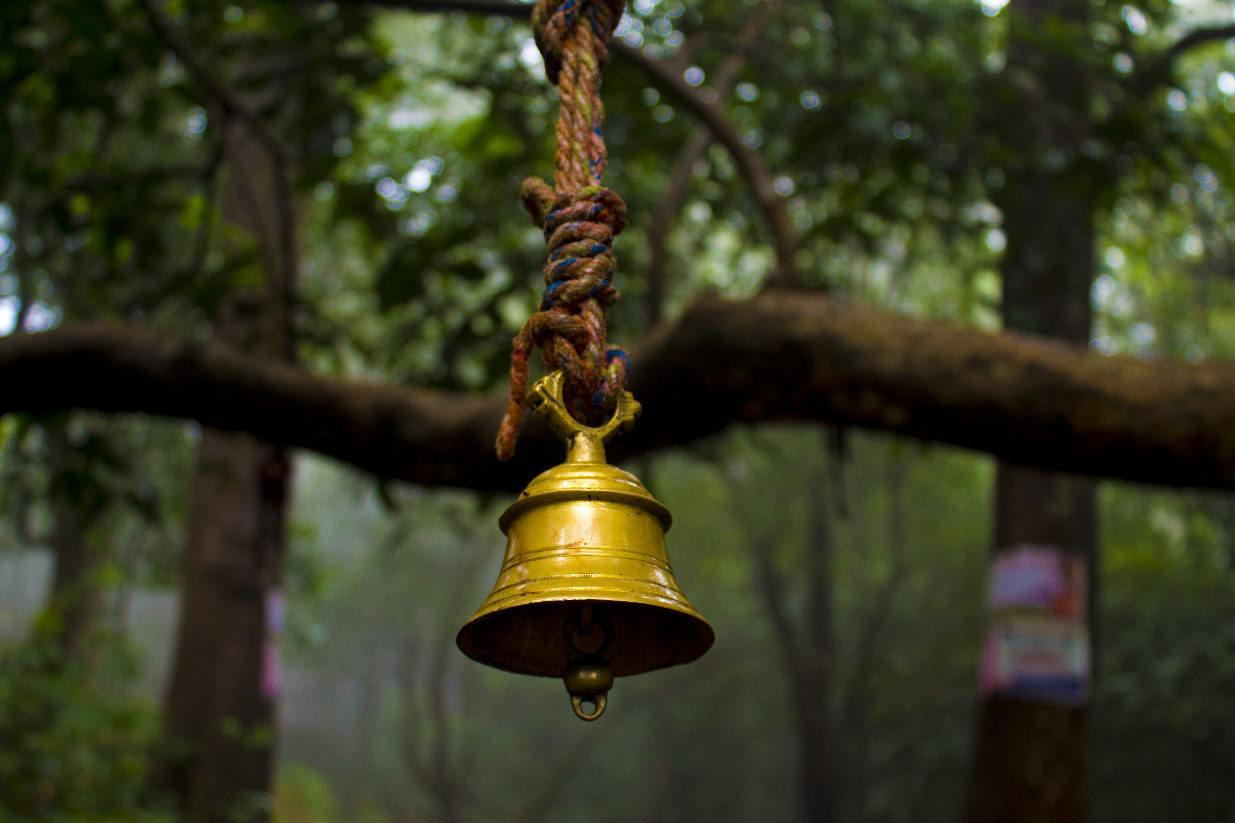 A bell hanging in front of a small temple in the midst of a jungle.